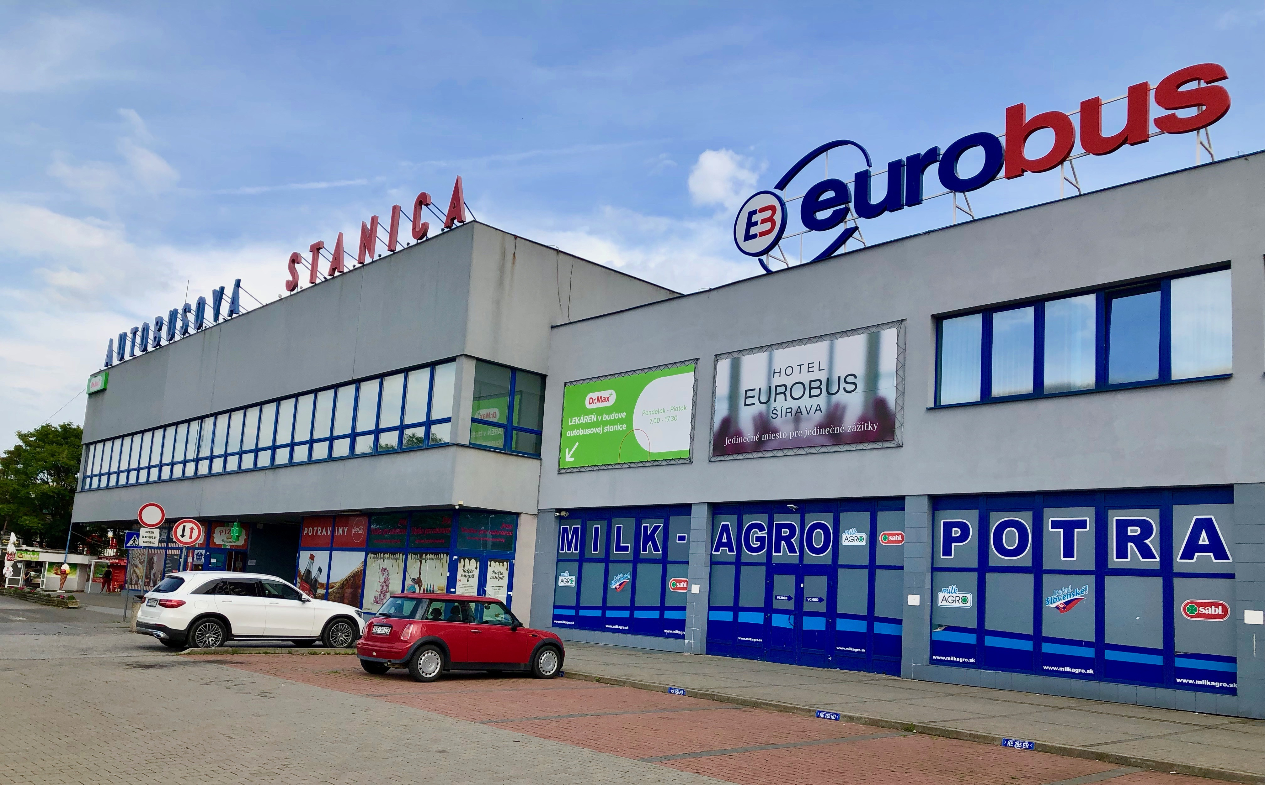 Building of Košice Bus Station